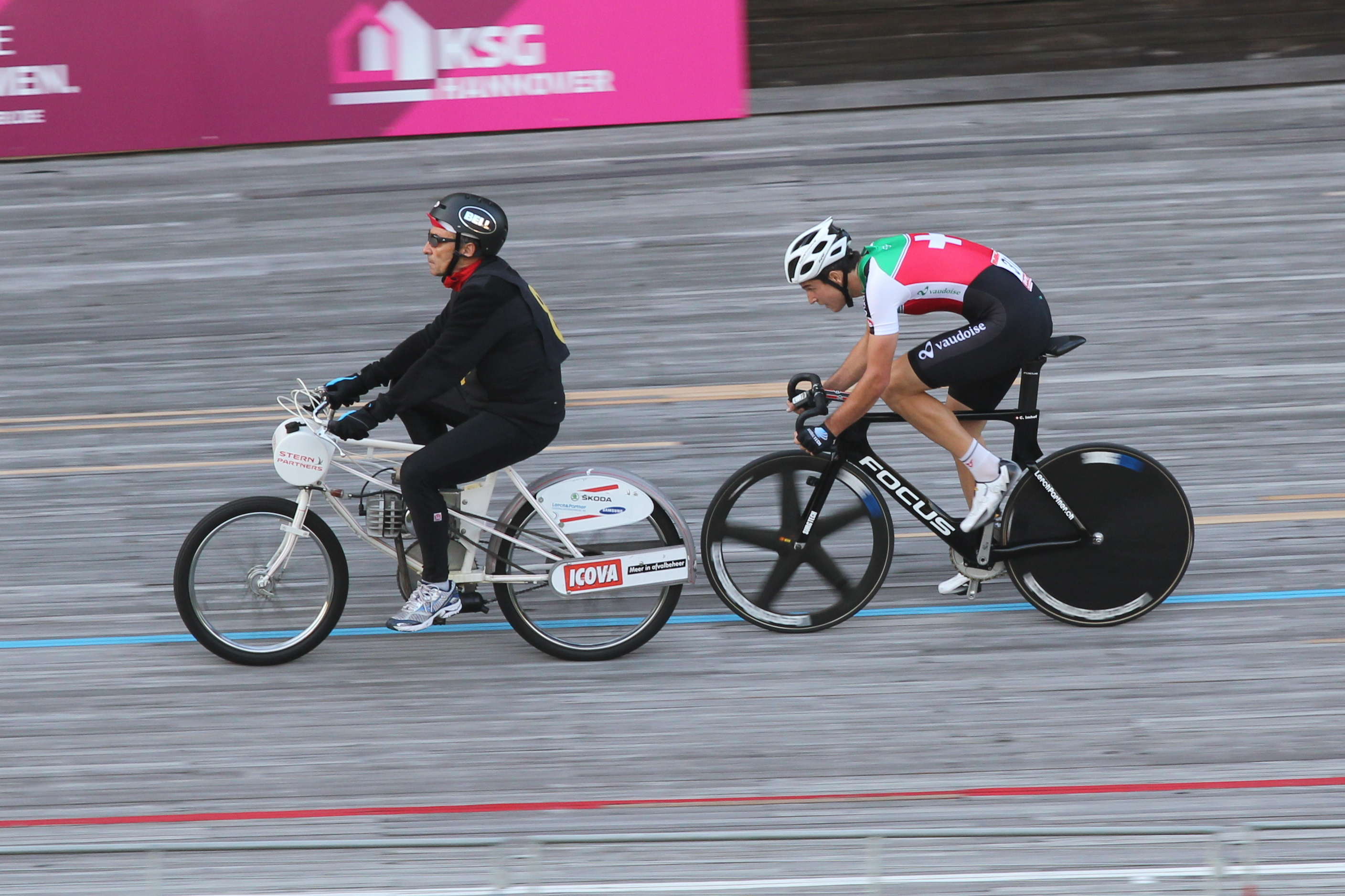 UEC Derny European Championship 2015 - 3rd heat, 60 laps / 20 km, Rider: Claudio Imhof (Switzerland), Pacer: Robert Buchmann (Switzerland)